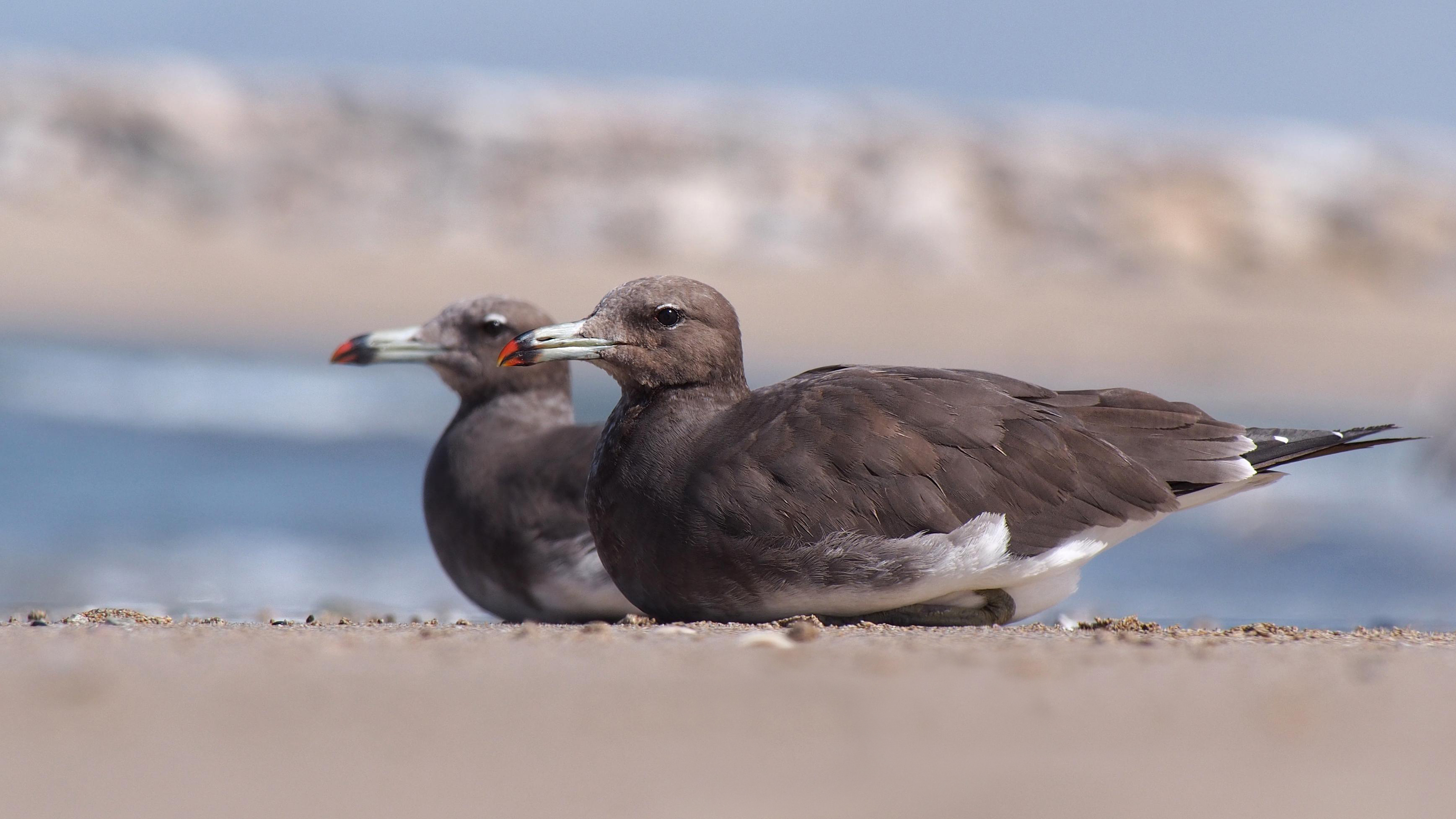 Two Sooty Gulls Ichthyaetus hemprichii, nr Muscat, Oman